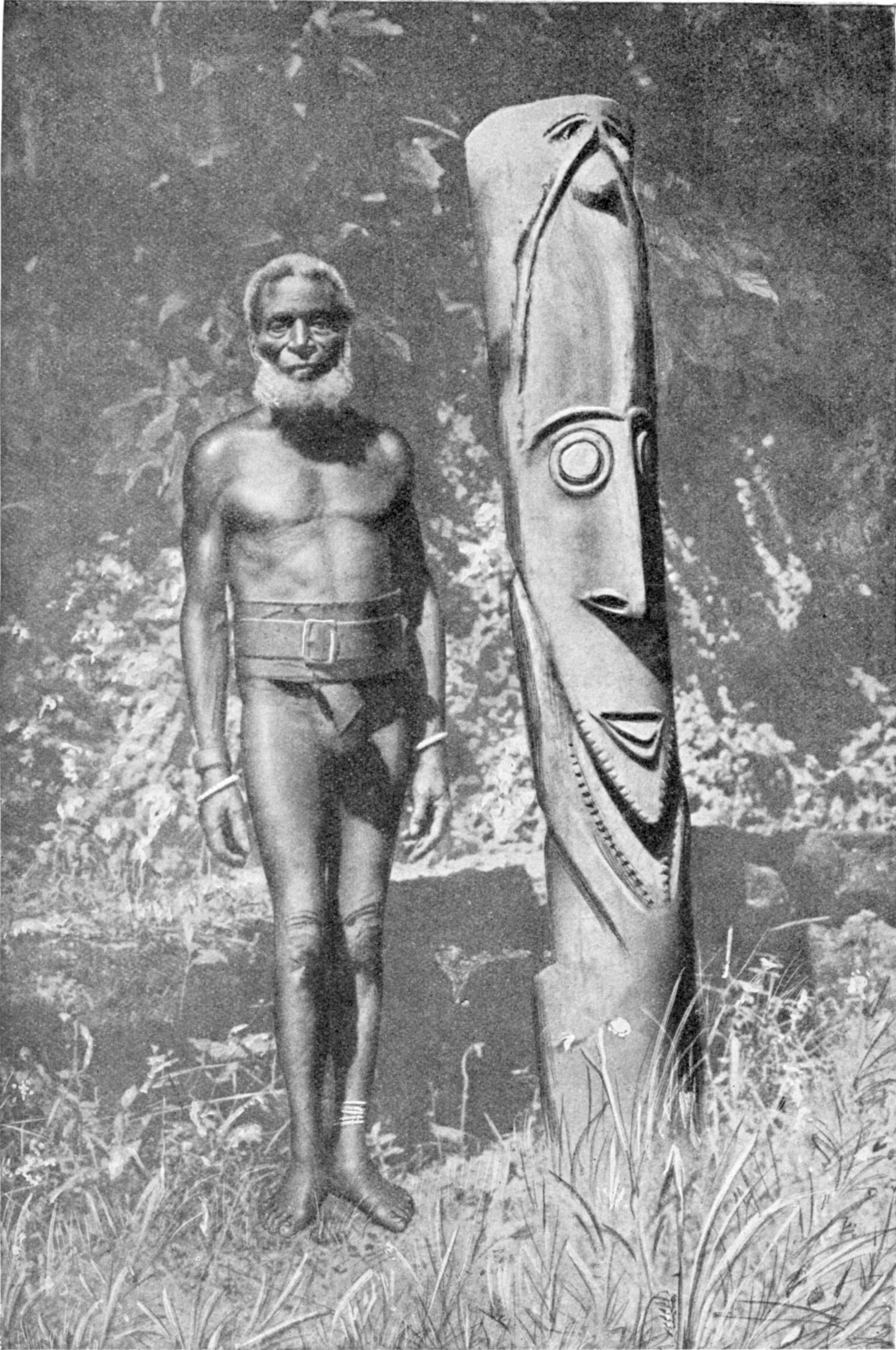 A MAKER OF GODS: IMAGE CARVER AND HIS HANDIWORK The sacred grounds of the gods are said to have existed from time immemorial, but missionary work is growing apace in Ambryn Island, and it is doubtful whether posterity will regard the ground or gods with the same superstitious dread as did their forefathers. This grey-haired native, however, knows all the prayers and charms which control and appease the spirits dwelling within these idols. In the colonial New Hebrides ca.1920 (present day Vanuatu). Credits Photo, American Field Museum, Chicago